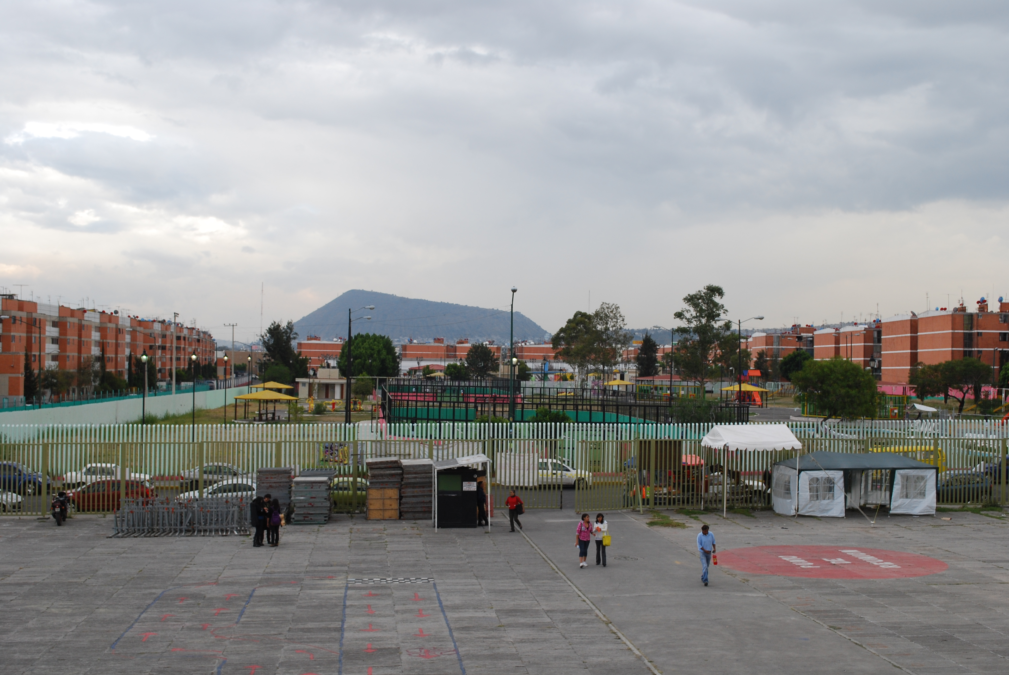 Housing development and recreational area in the Iztapalapa borough of Mexico City